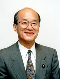 Japanese politician Shinya Izumi, appointed Parliamentary Vice-Minister of Transport in July 2000